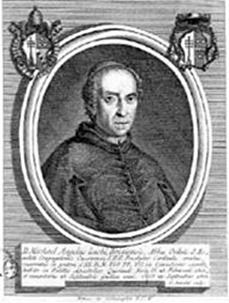 Kardinal Michelangelo Luchi (1744-1802)